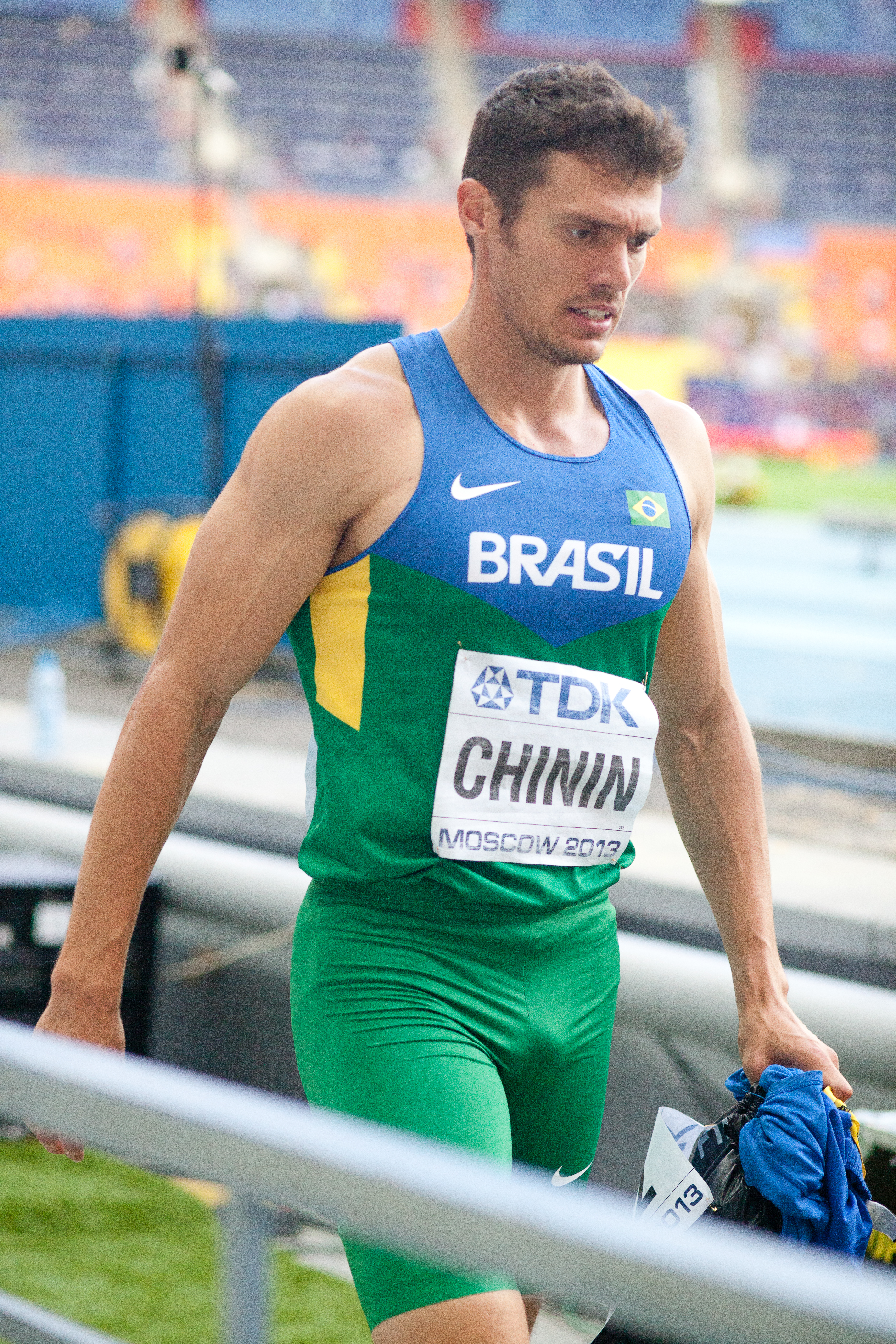 Carlos Chinin during 2013 World Championships in Athletics in Moscow.